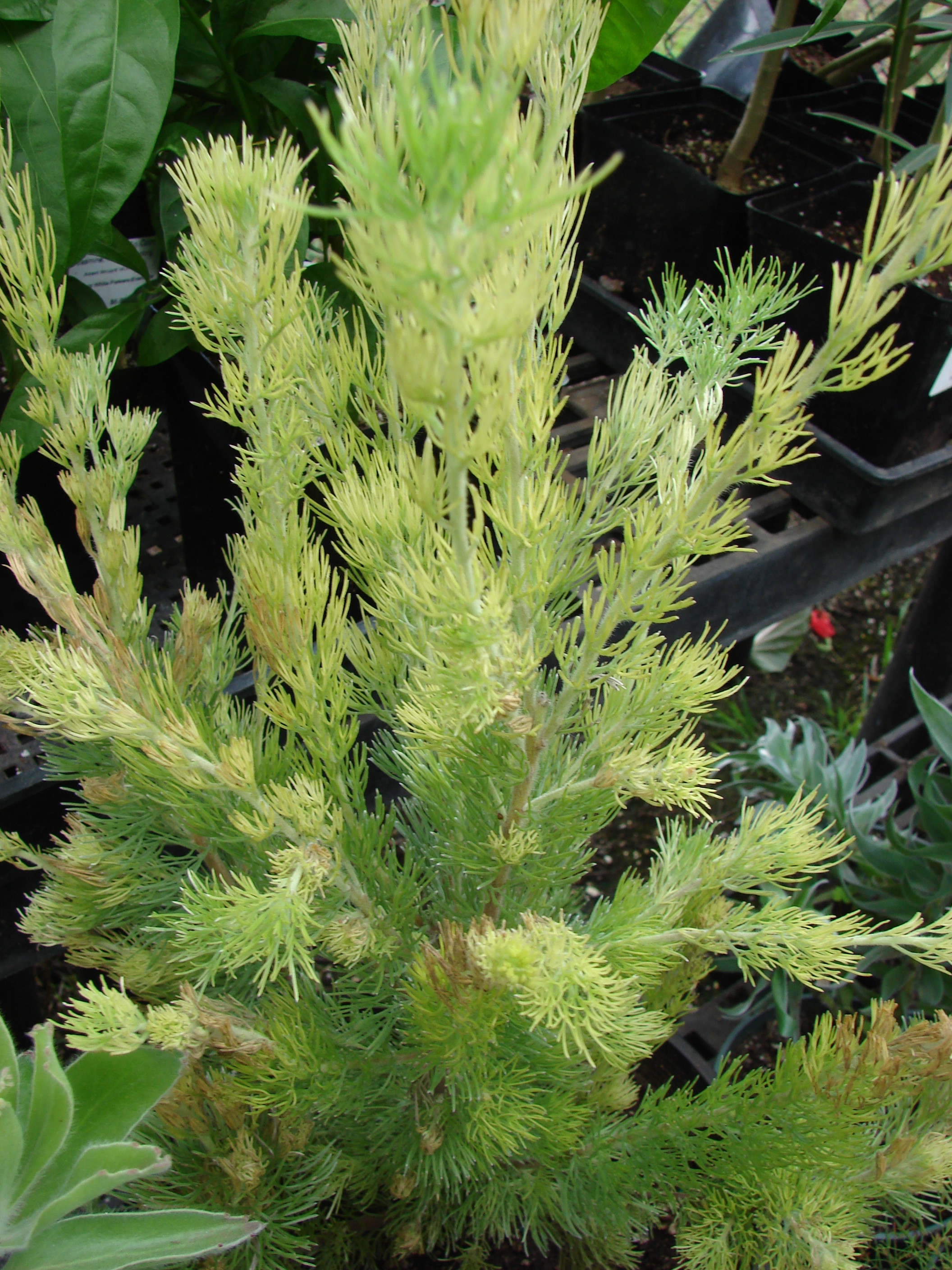 Unknown proteaceae (habit), most likely Adenanthos sericeus. Location: Maui, Kula Ace Hardware and Nursery